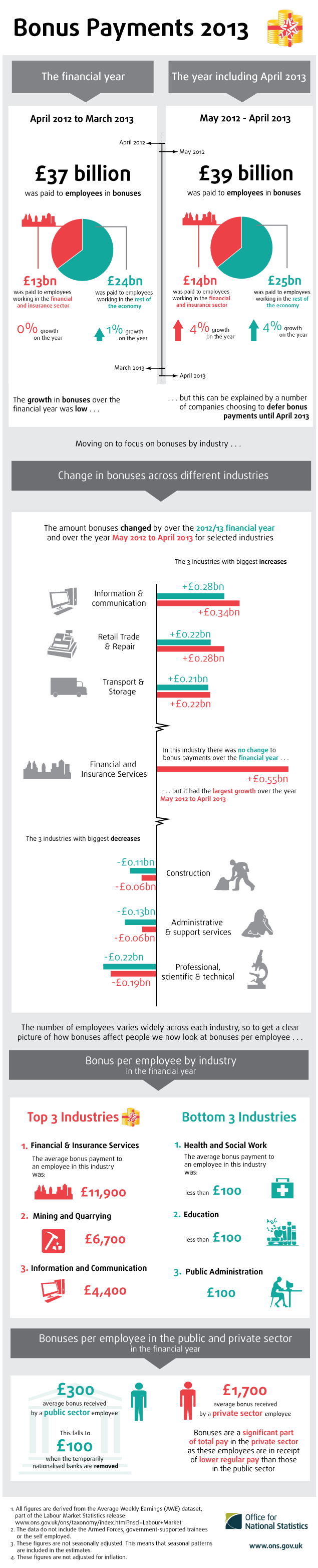 Bonus payments in the UK infographic, 2013